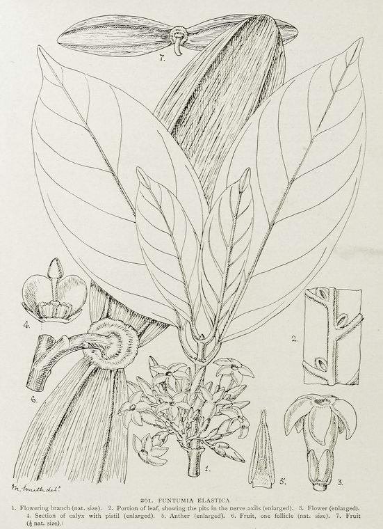 Funtumia elastica. 1. Flowering branch (nat. size). ; 2. Portion of leaf, showing the pits in the nerve axils (enlarged). ; 3. Flower (enlarged). ; 4. Section of calyx with pistil (enlarged). ; 5. Anther (enlarged). ; 6. Fruit, one follicle ( nat. size). ; 7. Fruit (1/3 nat. size)